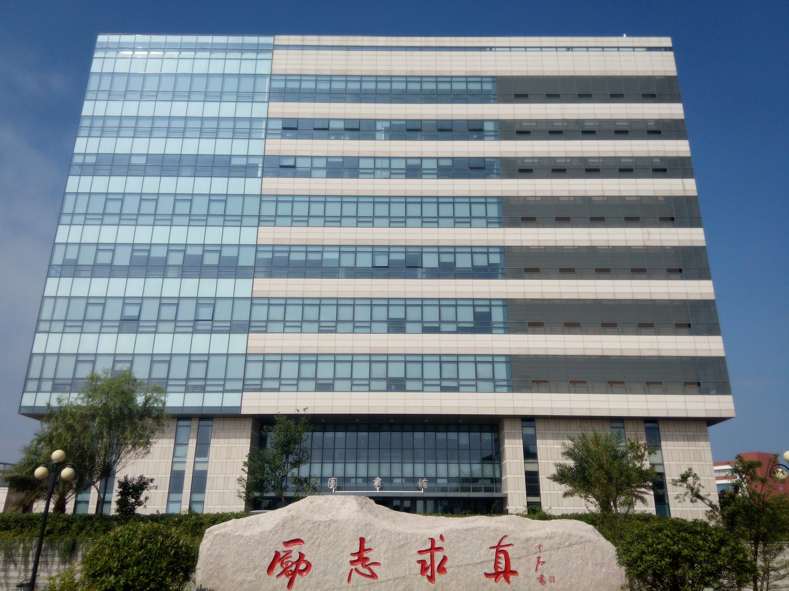 Library of East China University of Science and Technology at Fengxian Campus